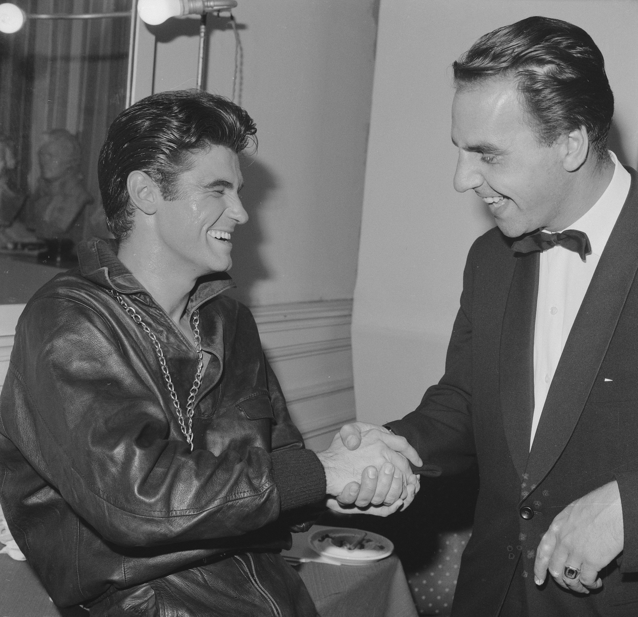 Vince Taylor & Willem Duys at the Grand Gala du Disque , 29 Sept. 1962, Kurhaus Scheveningen (the Netherlands)